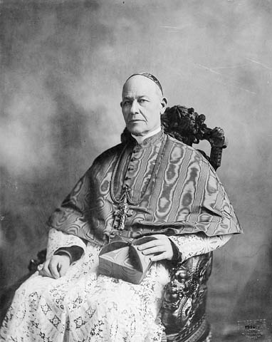 Cardinal Vannutelli